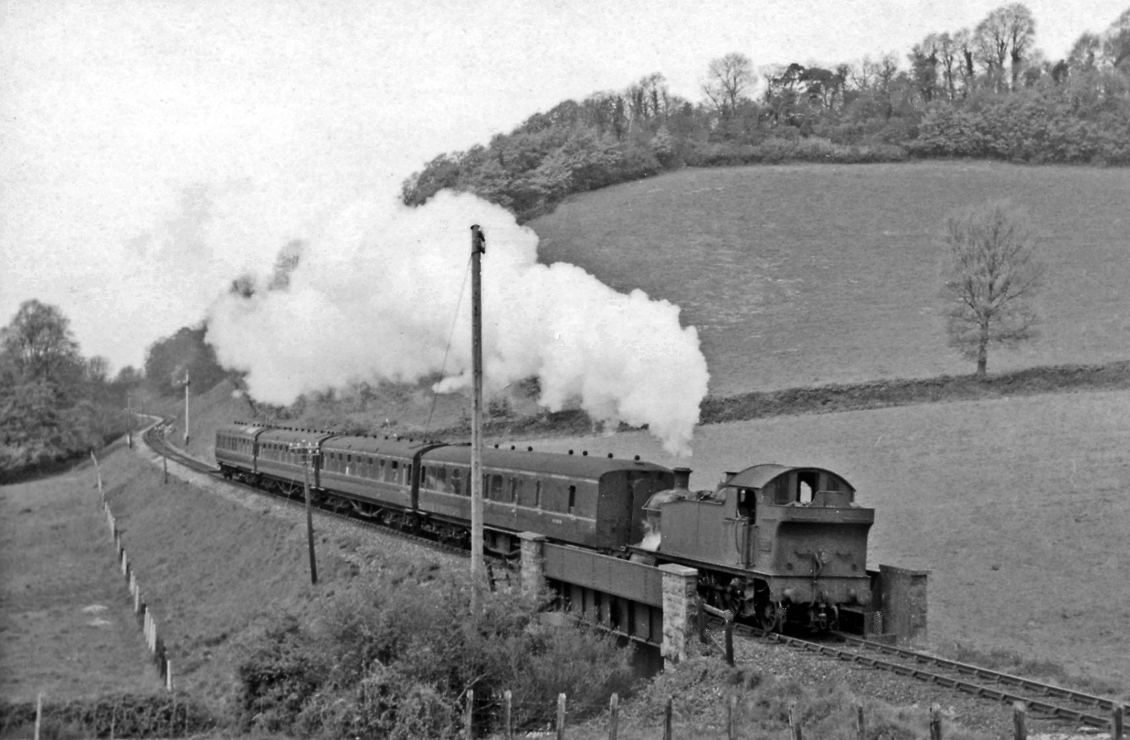 Minehead - Taunton branch train near Williton. View NW, towards Minehea: ex-GW Taunton - Minehead branch, closed 4/1/71, but reopened by the heritage West Somerset Railway on 28/3/76. The train is the 13.50 Minehead - Taunton, headed by Collett '4575' 2-6-2T No. 5554 (built 11/28). Beyond is Woolston Moor (292 ft.), an outlier of the Quantock Hills.